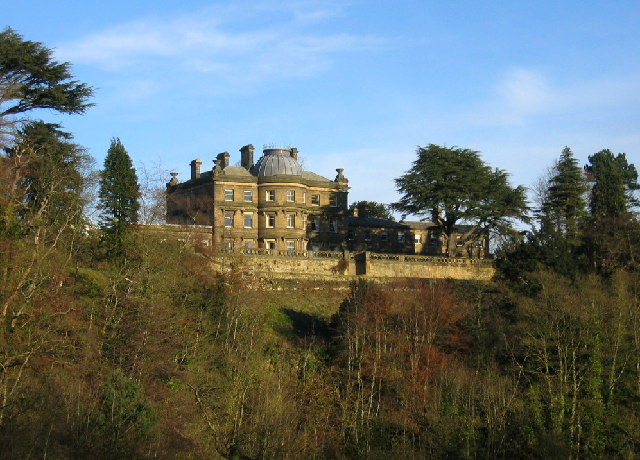 Hartford Hall, near Bedlington. Built in 1807 for a local mine owner it later became the "Northumberland Miners Rehabilitation Centre" and has now been converted into "luxury apartments".